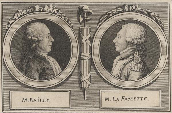 Engraving picture of 1st Mayor of Paris, Jean Sylvain Bailly, and National Guard Commander-in-Chief, Marquis de Lafayette.